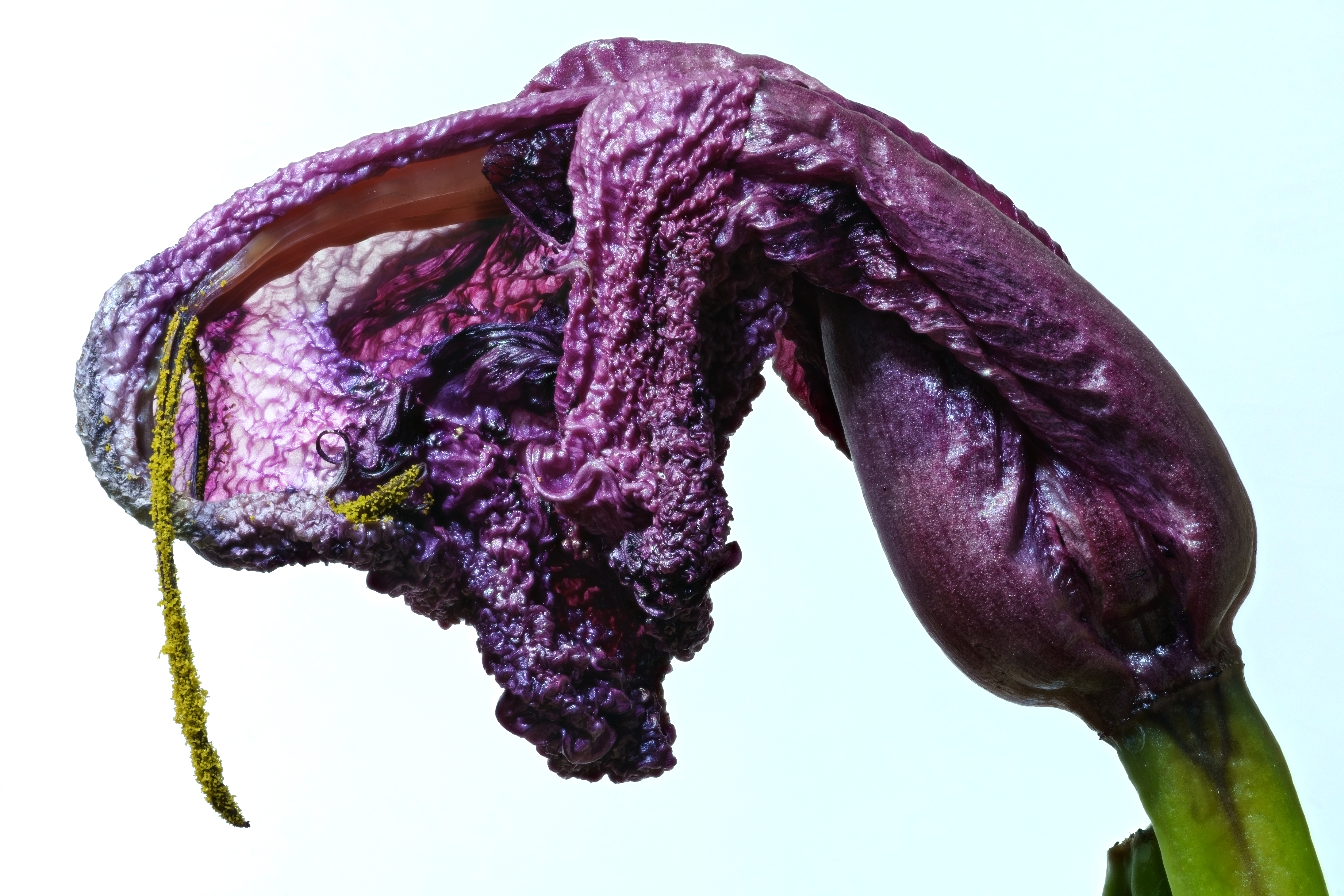 Tigridia pavonia - wilted overnight - 2018-07-25 composite image via focus stacking.